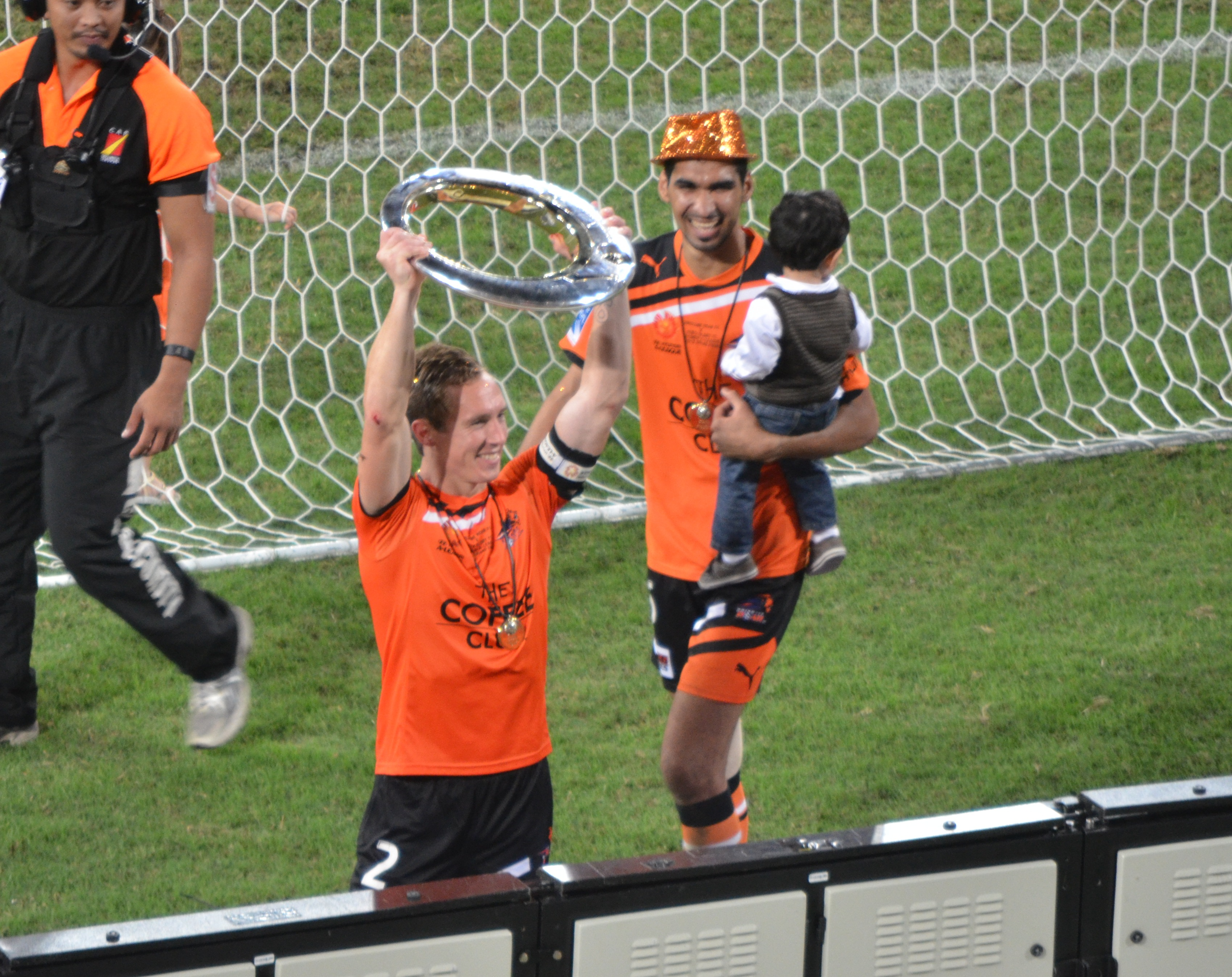 Orange Sunday II, A-League Grand Final, April 22 2012.